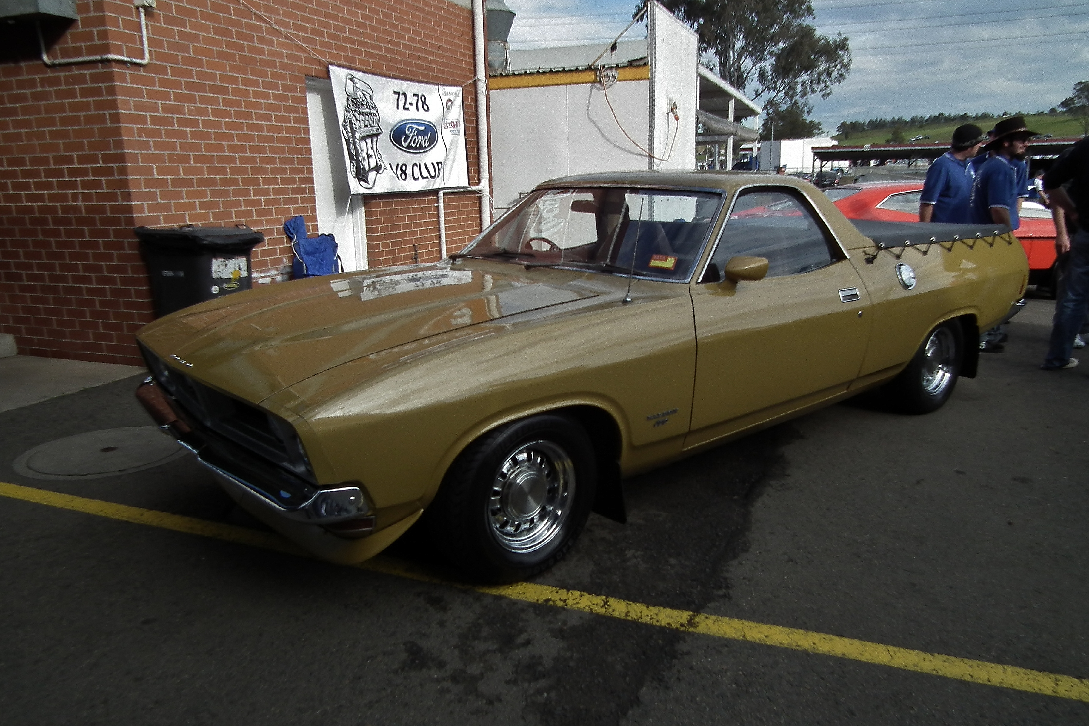 1975 Ford Falcon 500 utility. Taken at the 2011 New South Wales All Ford Day, held at Eastern Creek Raceway.